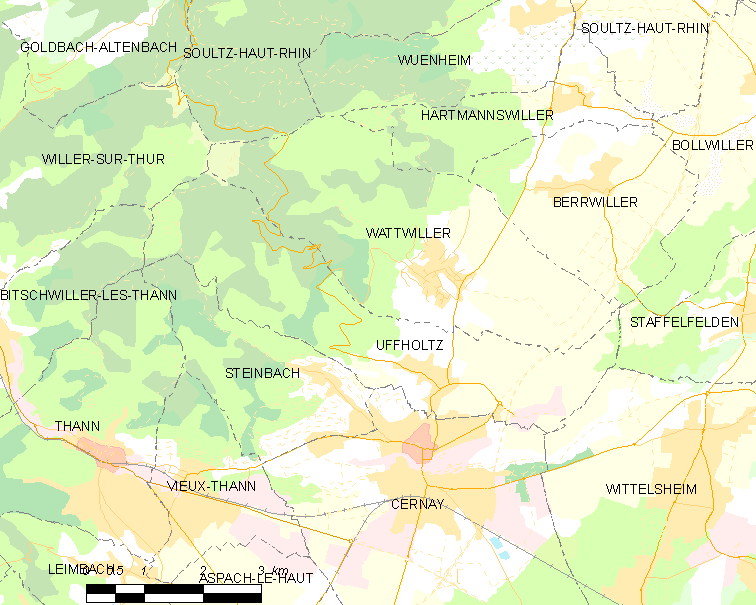 Map of French municipality